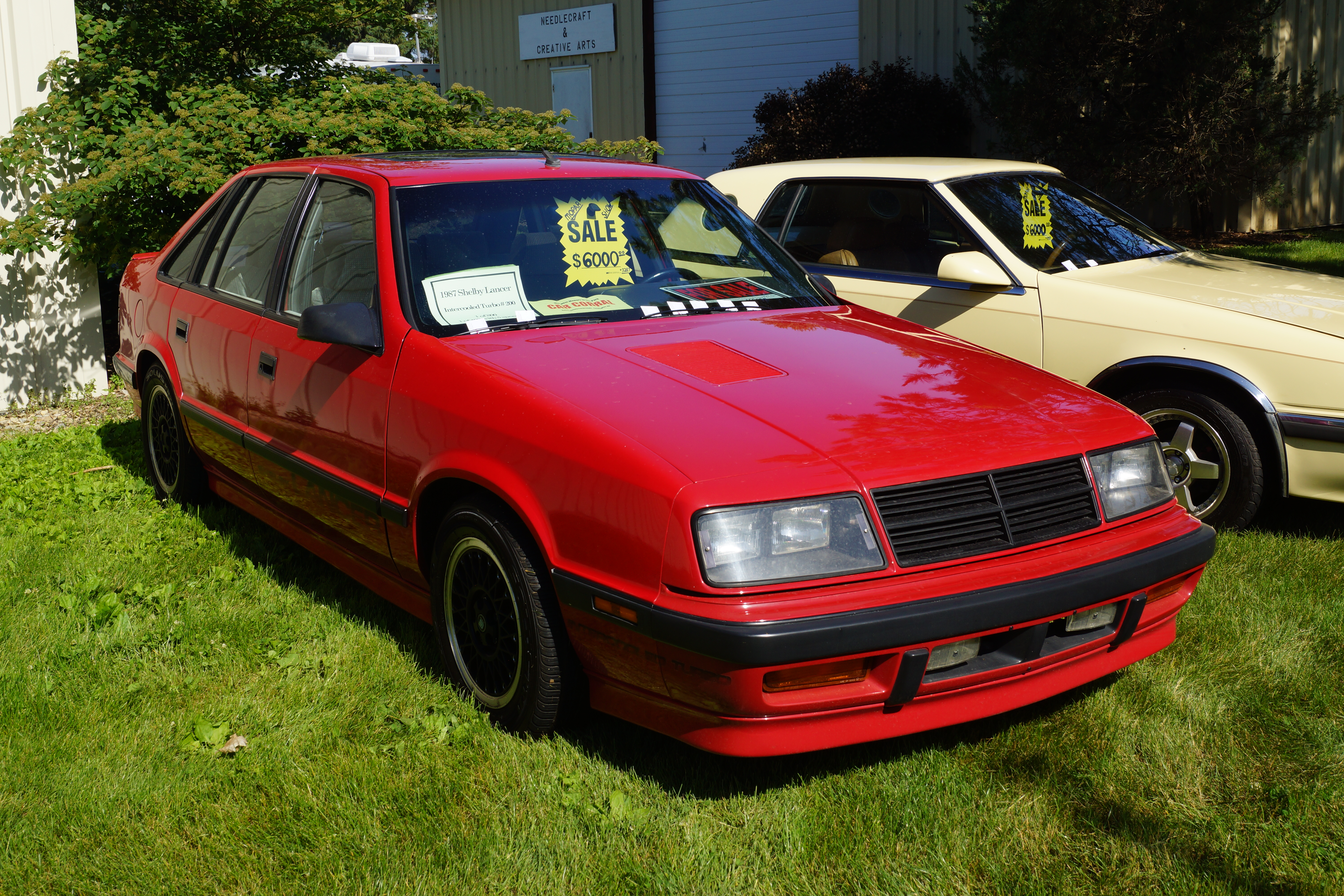 1987 Dodge Shelby Lancer